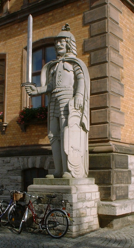 Roland statue in Calbe, Germany